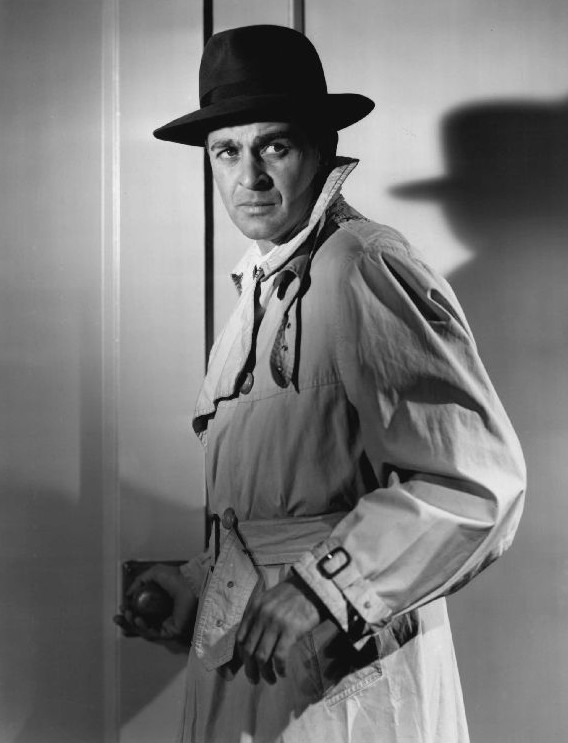 Photo of Stacy Harris from the radio program Doorway to Danger.